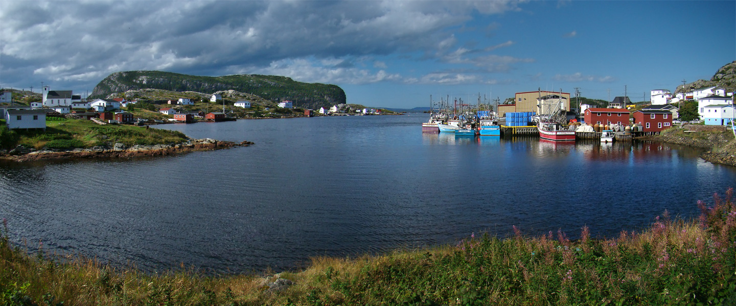 Salvage, Eastport Peninsula, Central Newfoundland, Canada.